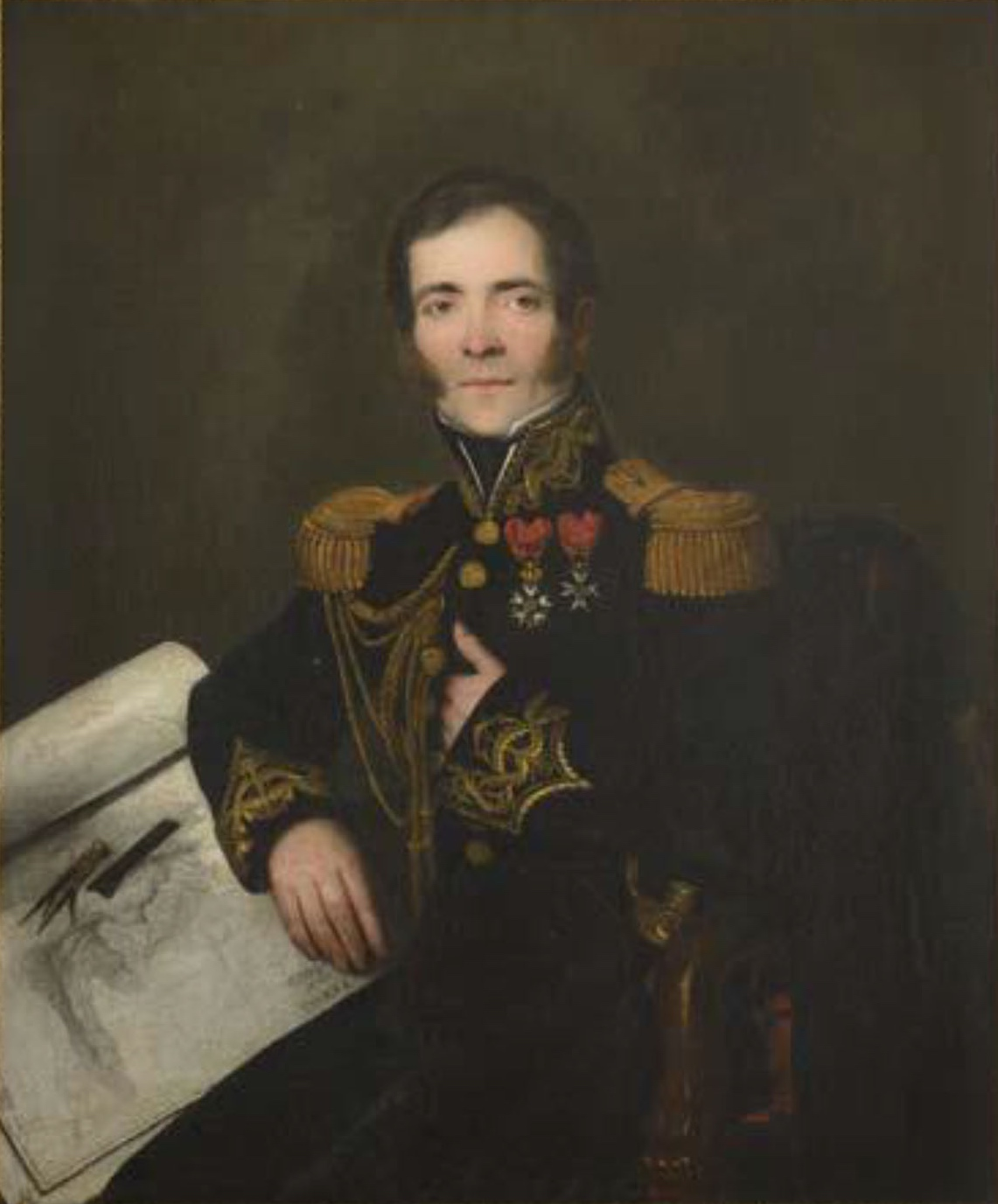 Picture of Anne Chrétien Louis de Hell, a French admiral and the governor (May 1838 - October 1841) of the Isle de Bourbon in the Indian Ocean - now known as the French overseas department of Réunion.